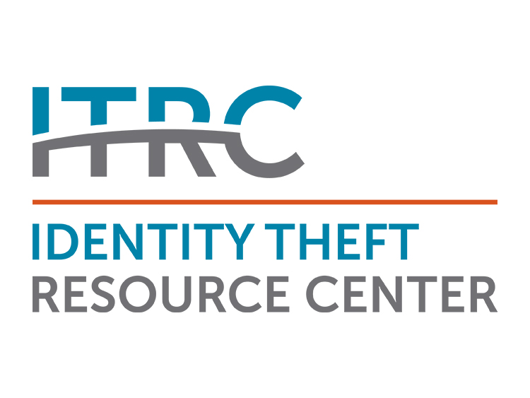 Identity Theft Resource Center logo